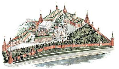 Overview map of the Moscow Kremlin. Location of The Poteshny Palace marked.